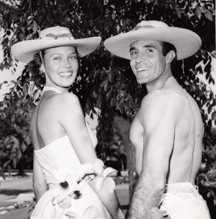 Ricardo Montalban and wife Georgiana Young ca. 1950